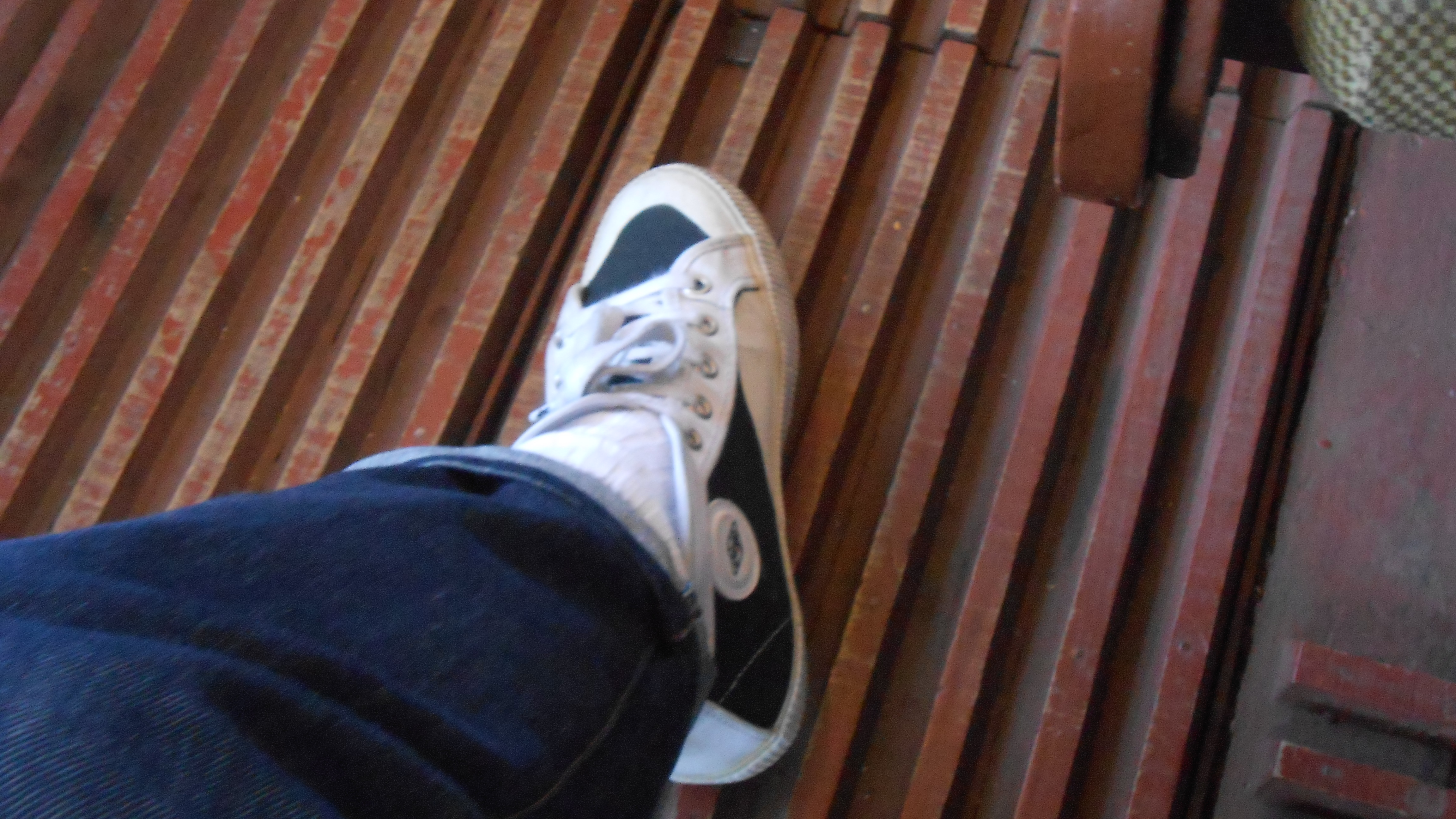 The classic model of portuguese sports shoe Sanjo, picture taken in the historic Sintra tram.